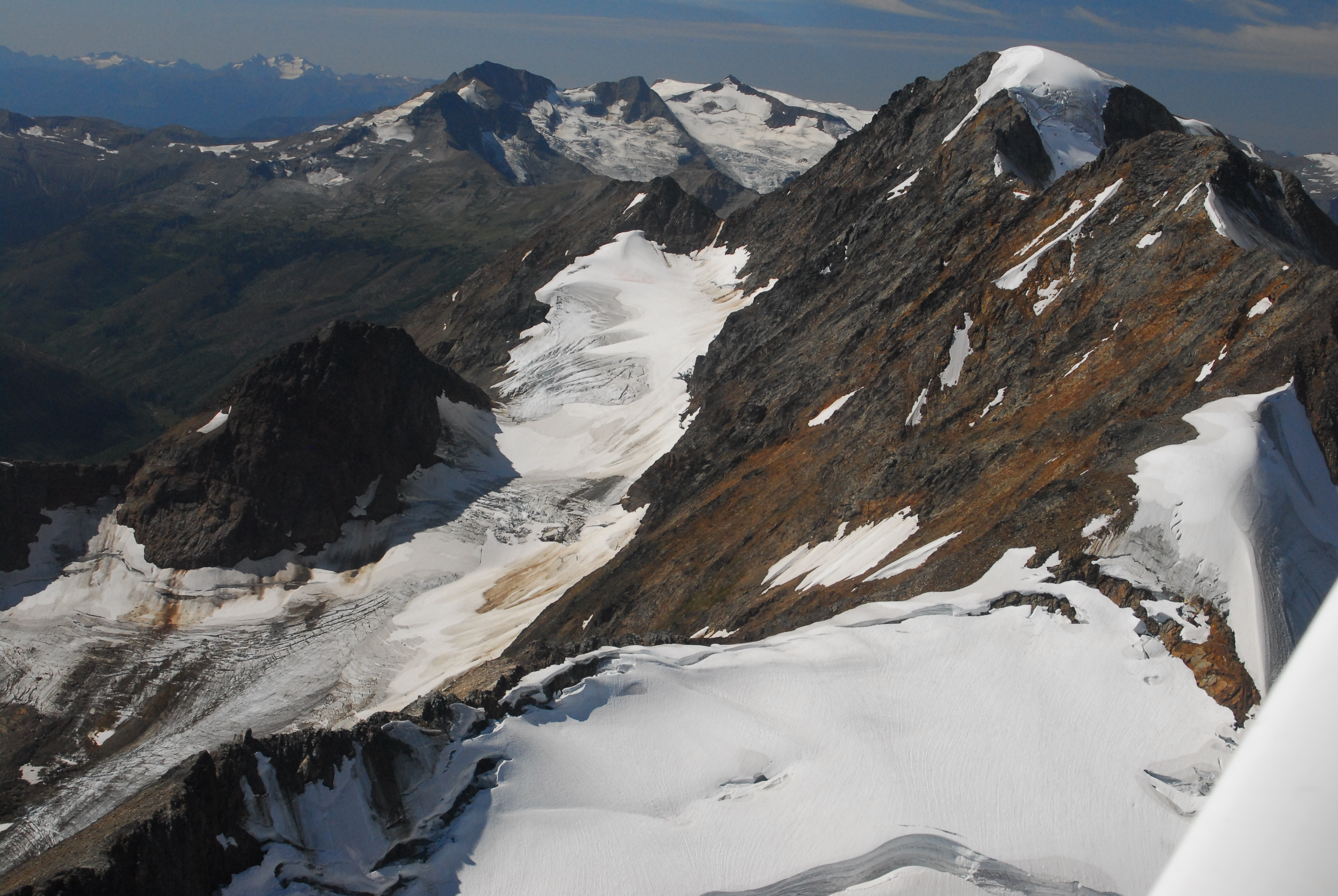 Flying over the Purcell mountain range near Invermere, British Columbia, Canada